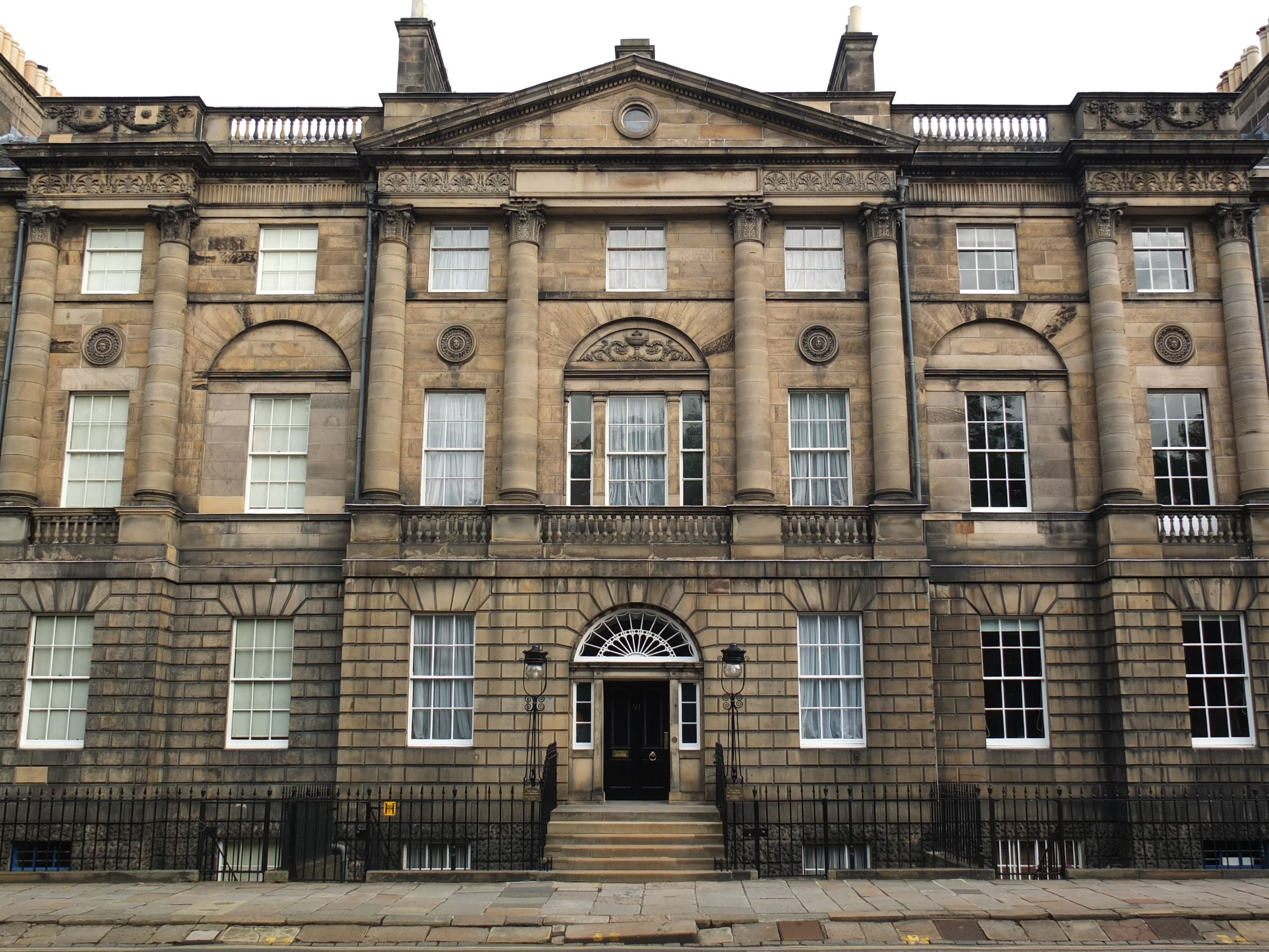 1-11 Charlotte Square